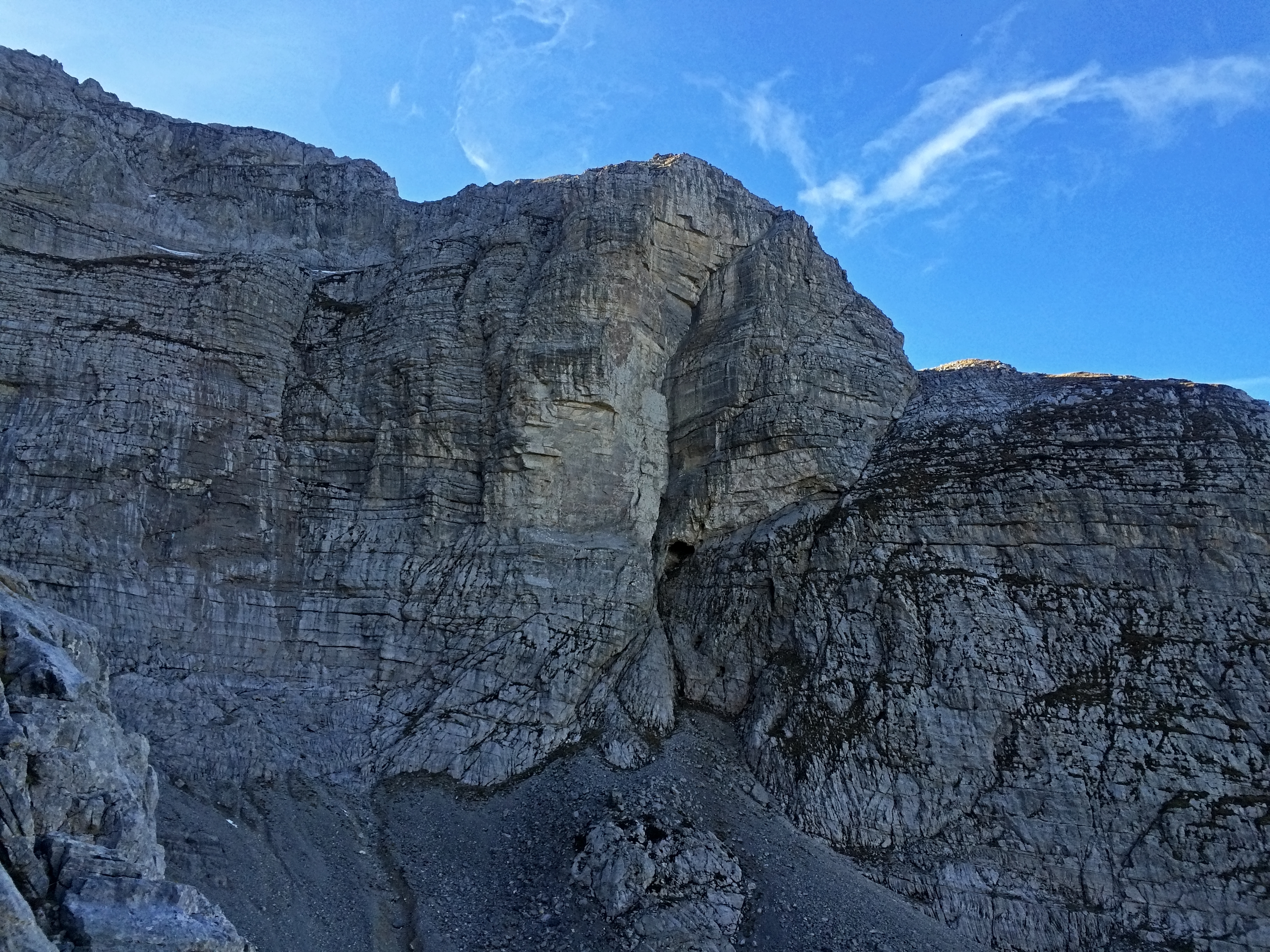 The North Face of Zla Kolata mountain, Montenegro, Prokletije Mountains range, November 2016